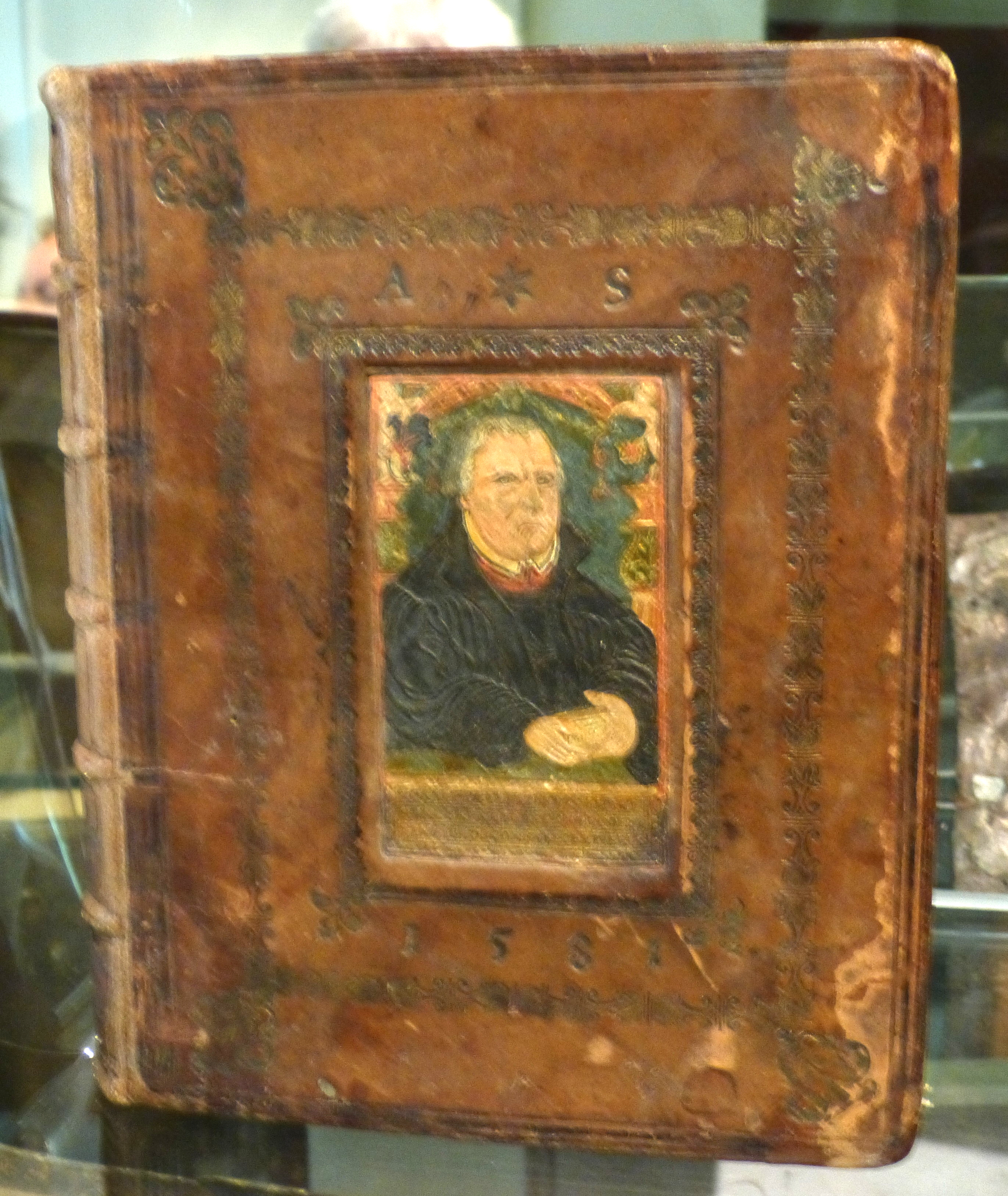 Rutzenmoos ( Upper Austria ). Protestant Museum of Upper Austria: New Testament by Martin Luther, Wittenberg 1579, with cover showing Luther`s portrait ( 1581 ). It was used for Protestant services in the Landhaus ( parliament ) in Linz.